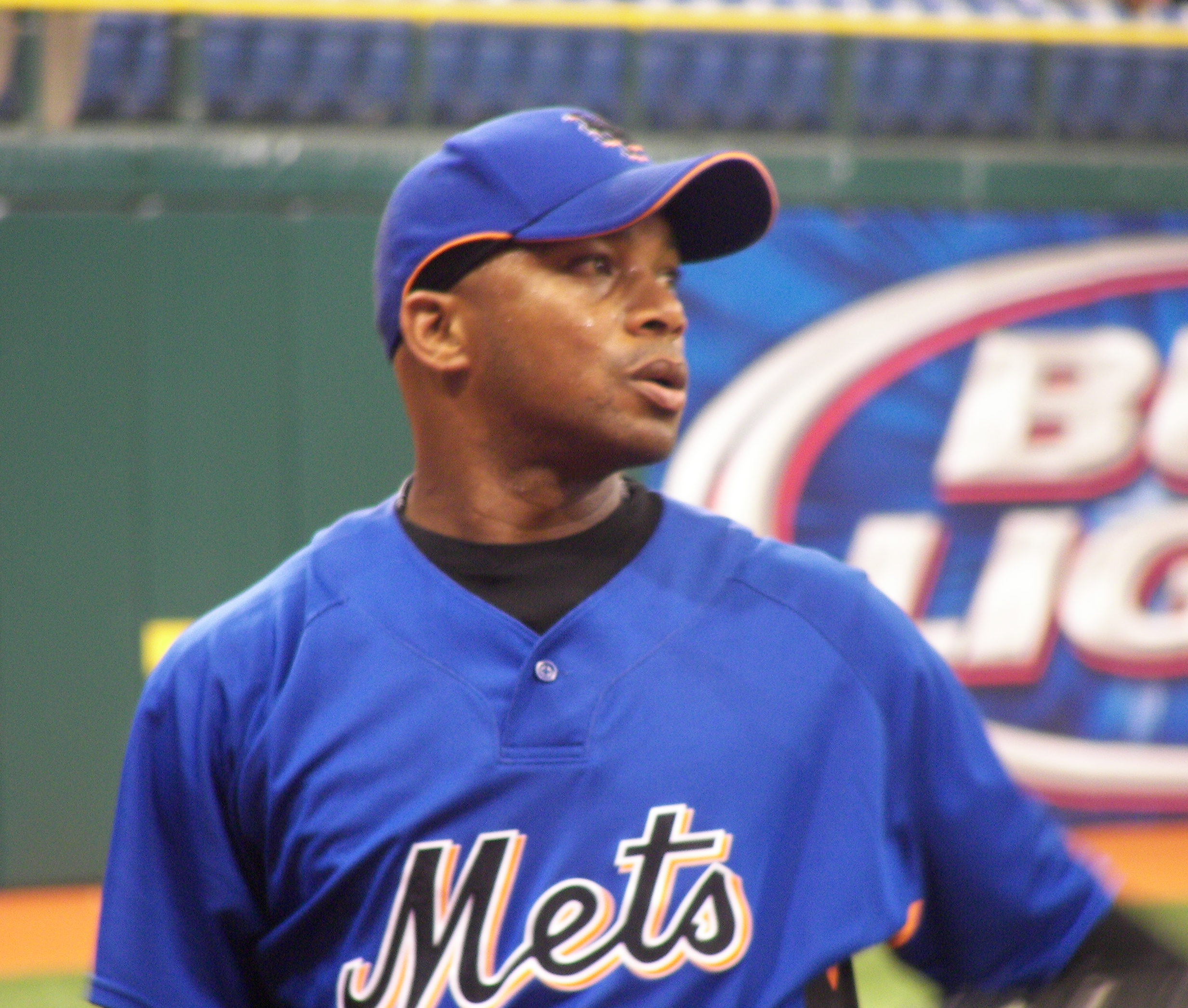 New York Mets pitcher Orlando Hernández before a Mets/Devil Rays spring training game at Tropicana Field in St. Petersburg, Florida.